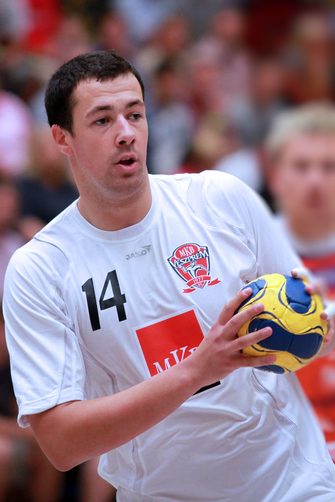 Marko Vujin, handball player from Serbia, playing for MKB Veszprém, on August 22nd, 2009 in Ehingen (Germany), during the Schlecker Cup 2009.